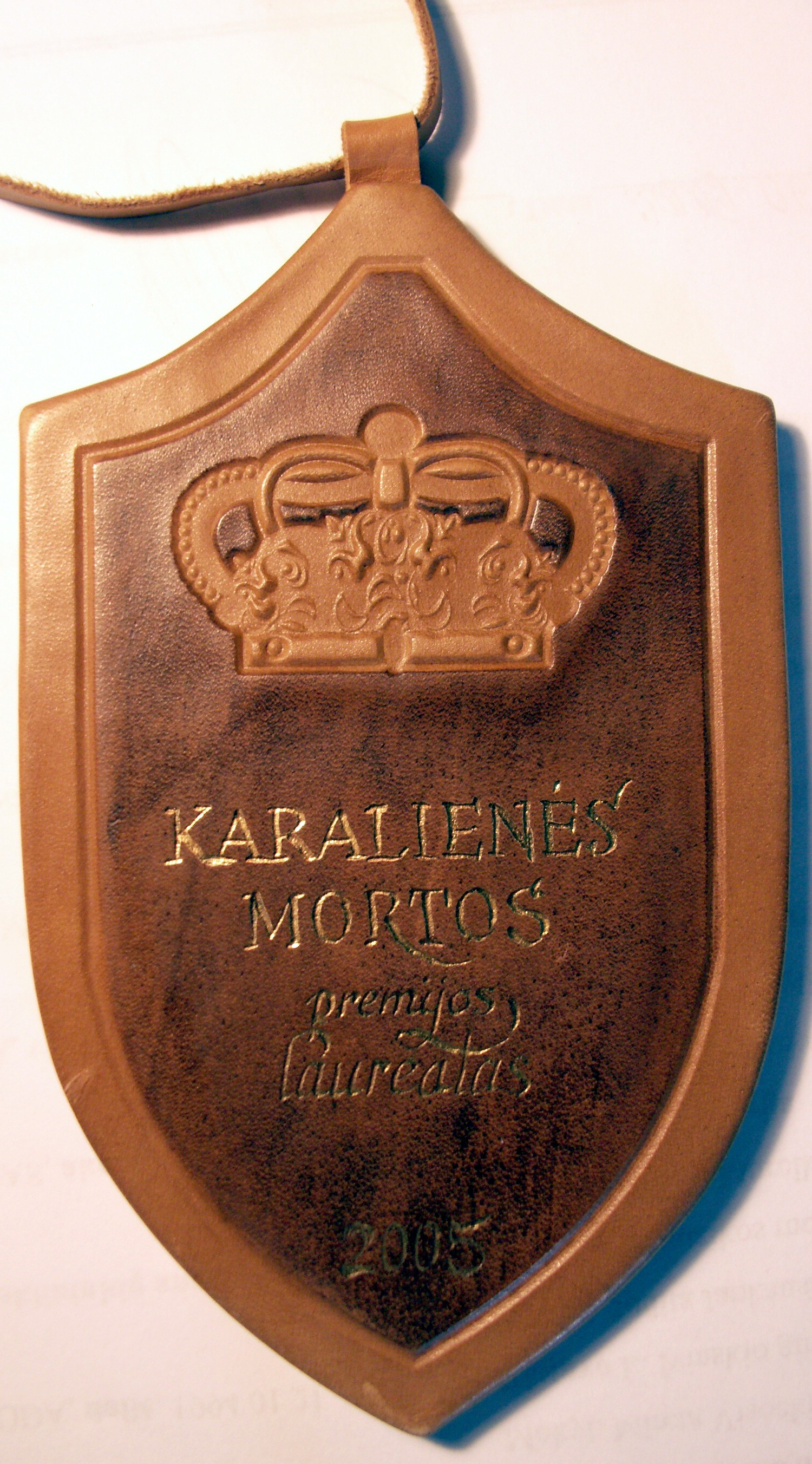 Liucija Čiutienė and Gražina Šimoliūnienė, medal of laureate of prize of Morta, queen of Lithuania, leder